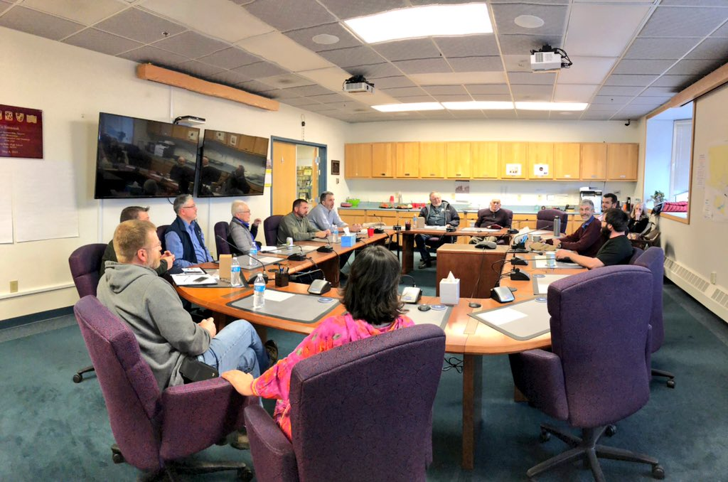 A successful Nome Chamber of Commerce meeting is under way!